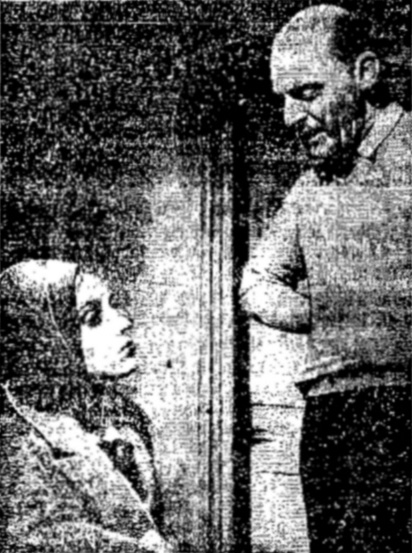 Elisabeth Bergner (1897-1986), Austrian actress, with her husband Paul Czinner (1890-1972), Hungarian film director